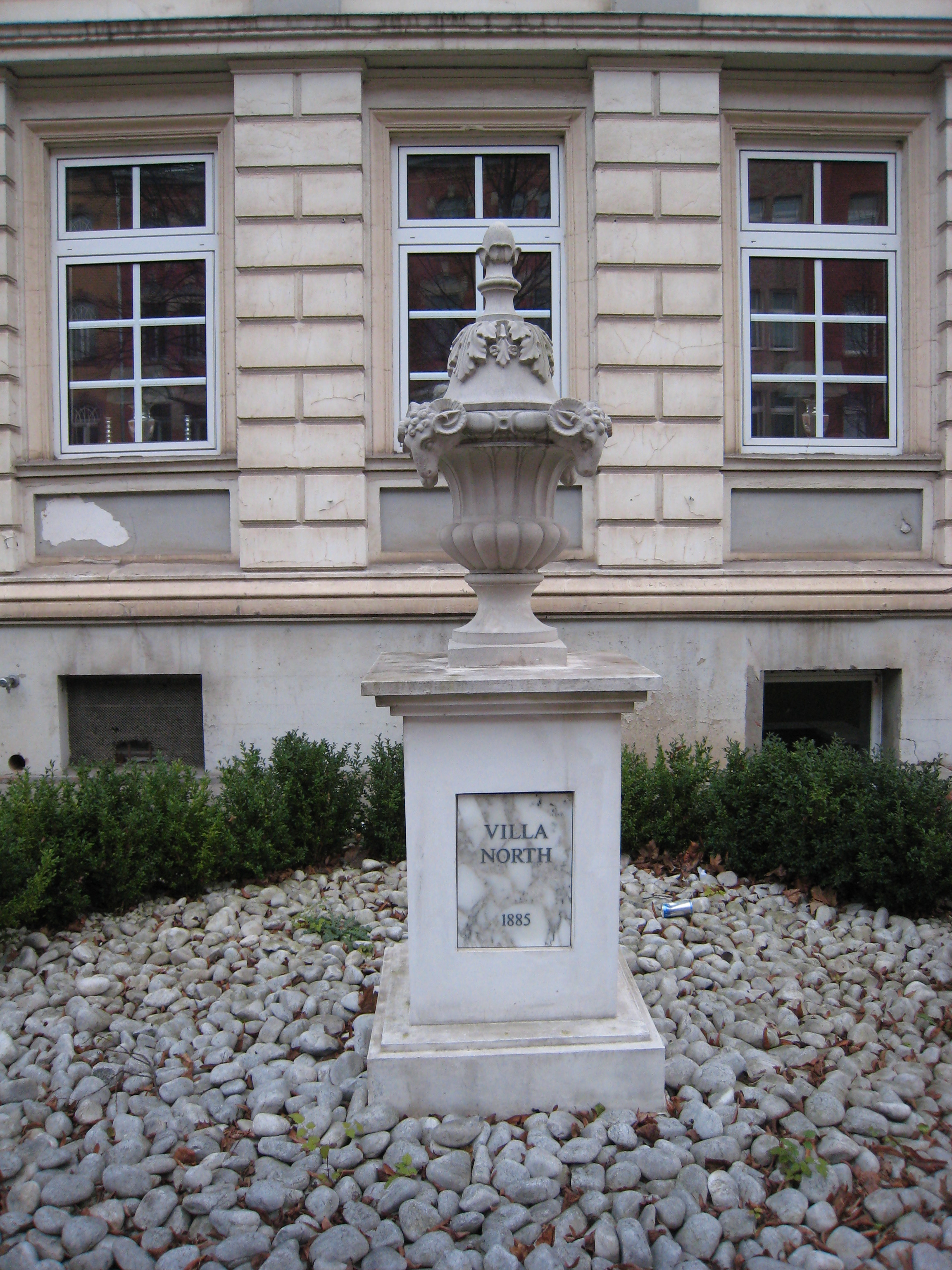 Villa North Erfurt, Stauffenbergallee 5